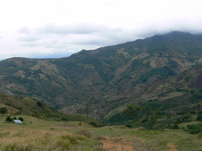 View of the Cerros de Escazú mountains, in the Salitral District of the Santa Ana Canton of the San Jose Province, Costa Rica.